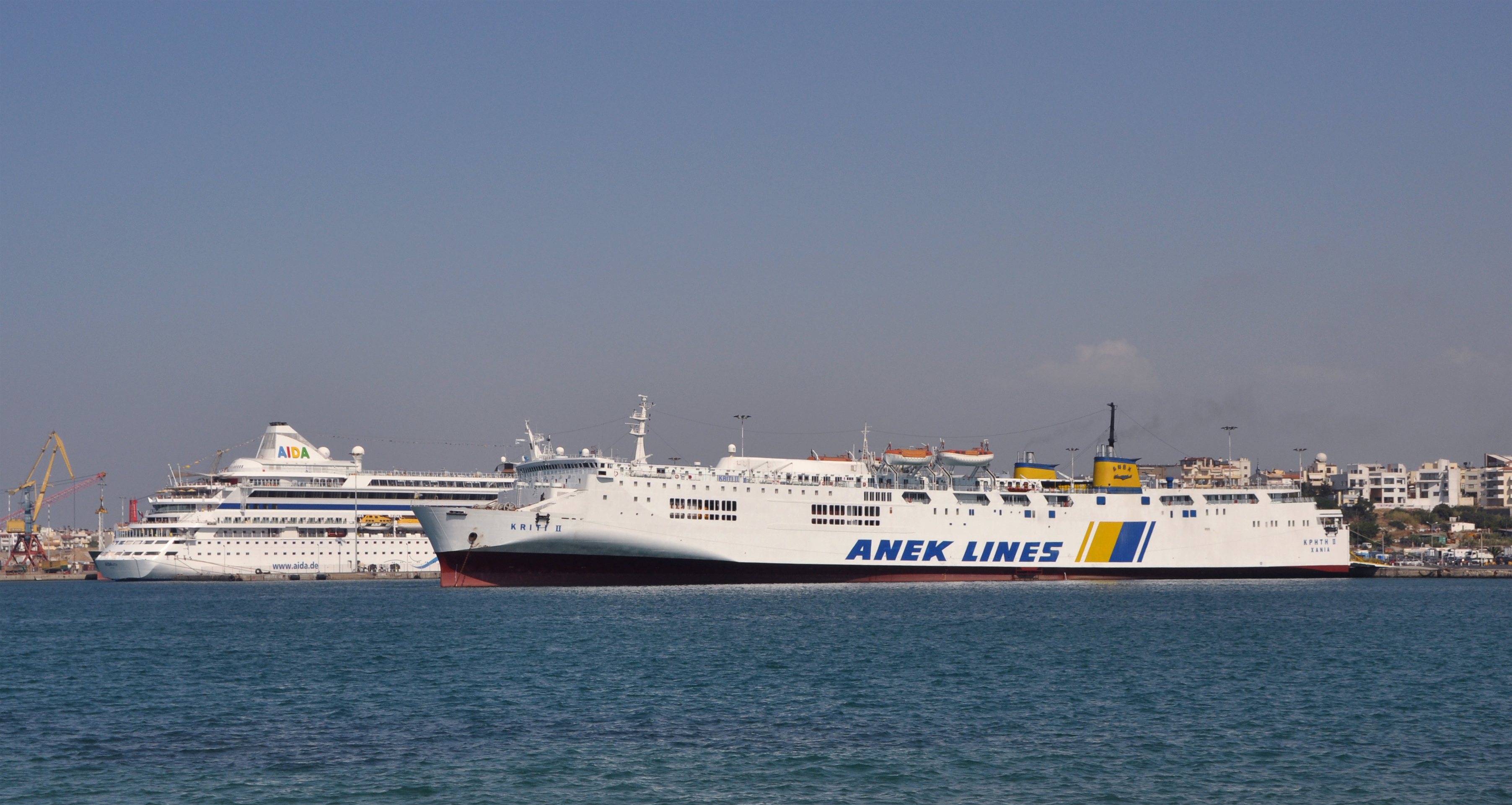 Ferryboat Kriti II of Anek Lines in the harbour of Heraklion (Crete, Greece)